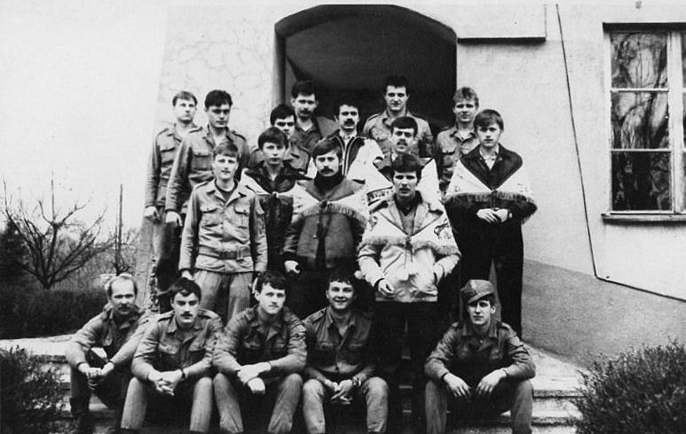 Border Protection Forces in Bielawa Dolna